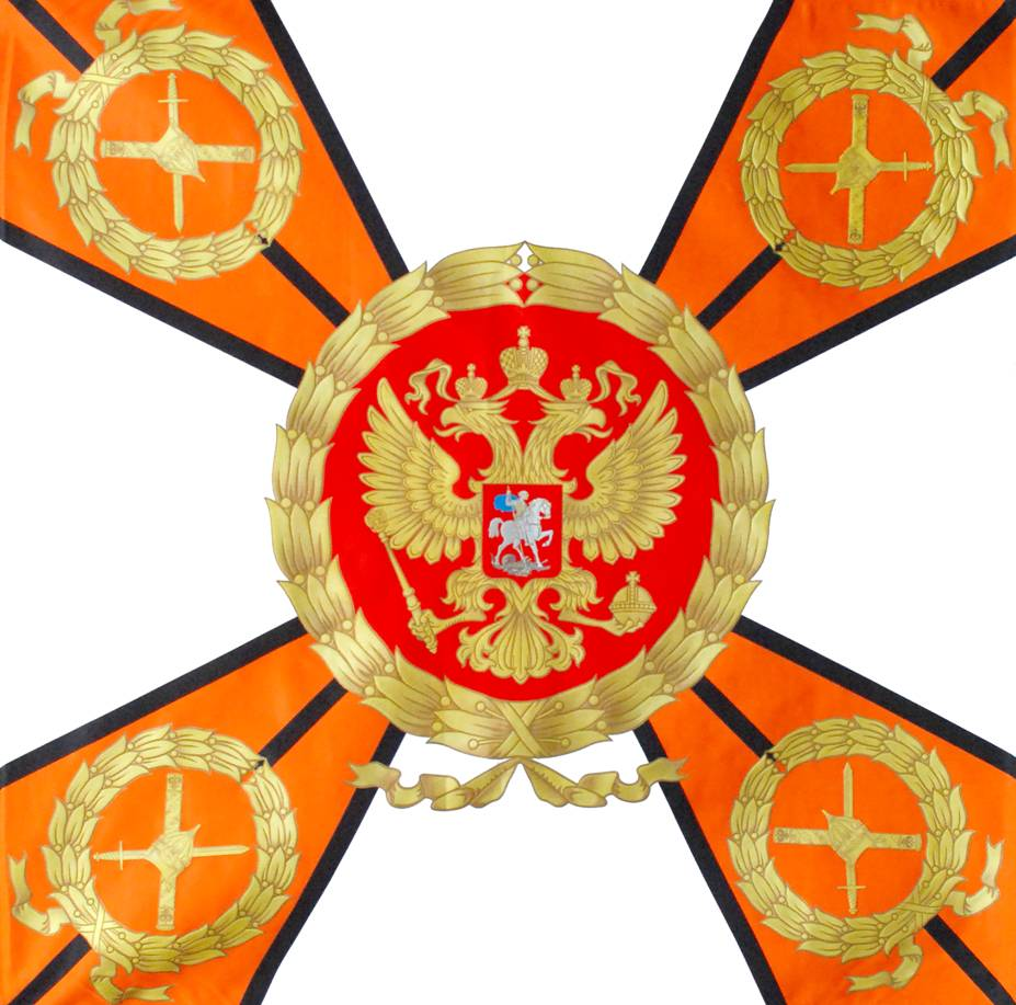 VIPKSMO flag